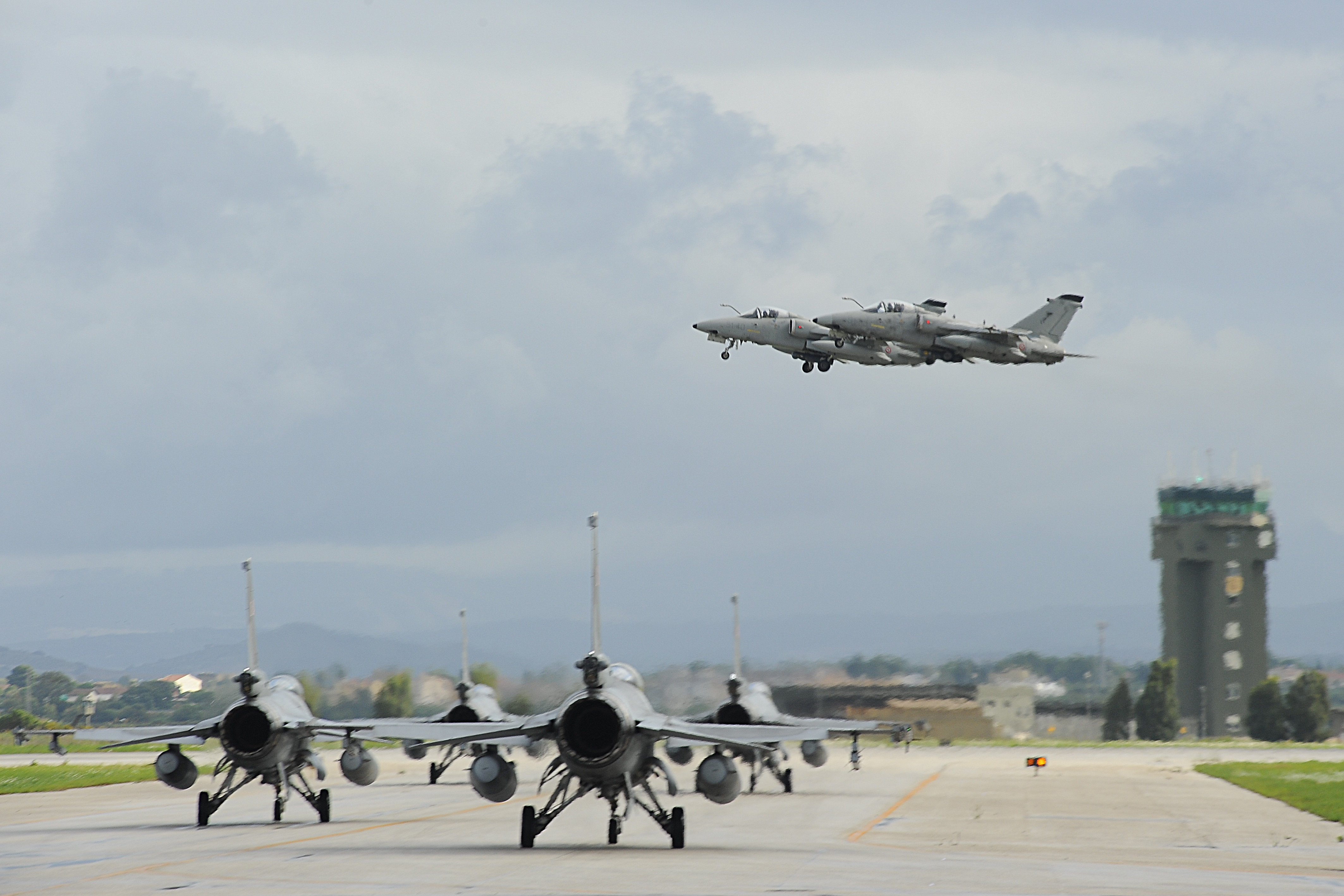 NATO photo by OR9 Antonio Stellato Two Italian Air Force AMX's right after taking off and four Polish Air Force F16's waiting for take-off for a Composite Air Operations (COMAO) mission at Trapani Air Base, Italy on October 22, 2015 during Trident Juncture 15.